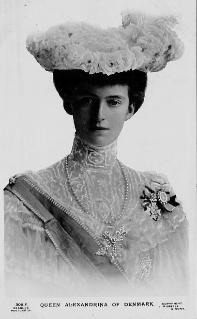 queen alexandrine of denmark nee duchess of mecklenburg-schwerin